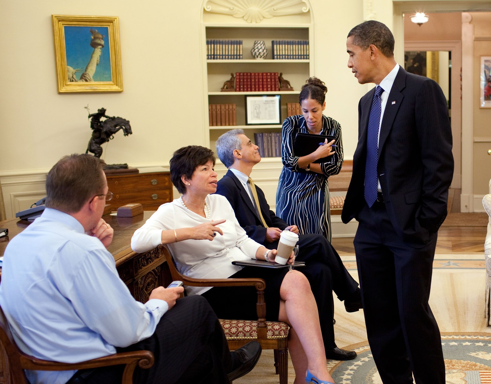 President Barack Obama Oval Office listens to Valerie Jarrett during a meeting with senior staff in the Oval Office on Aug. 13, 2009. From left; White House Press Secretary Robert Gibbs, Jarrett, White House Chief of Staff Rahm Emanuel and Assistant to the President Mona Sutphen. (Official White House photo by Pete Souza) License on Flickr (2011-01-22): United States Government Work Flickr tags: Washington, DC, USA